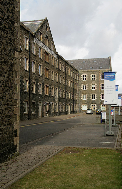 Ettrick Riverside Business Centre, Selkirk This converted and restored 19th century 4-storey Ettrick and Yarrow Spinners Mill in Dunsdale Road is now owned by Scottish Enterprise Borders who offer a range of accommodation for all types of Businesses. Scottish Enterprise is Scotland’s main economic, enterprise, innovation and investment agency. My grandfather worked in this mill as a foreman spinner in the 1950s.